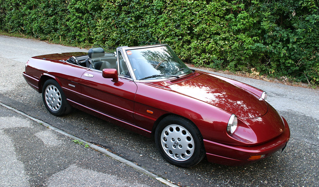 Alfa Romeo Spider 2.0, Serie 4 (1990-93), top down